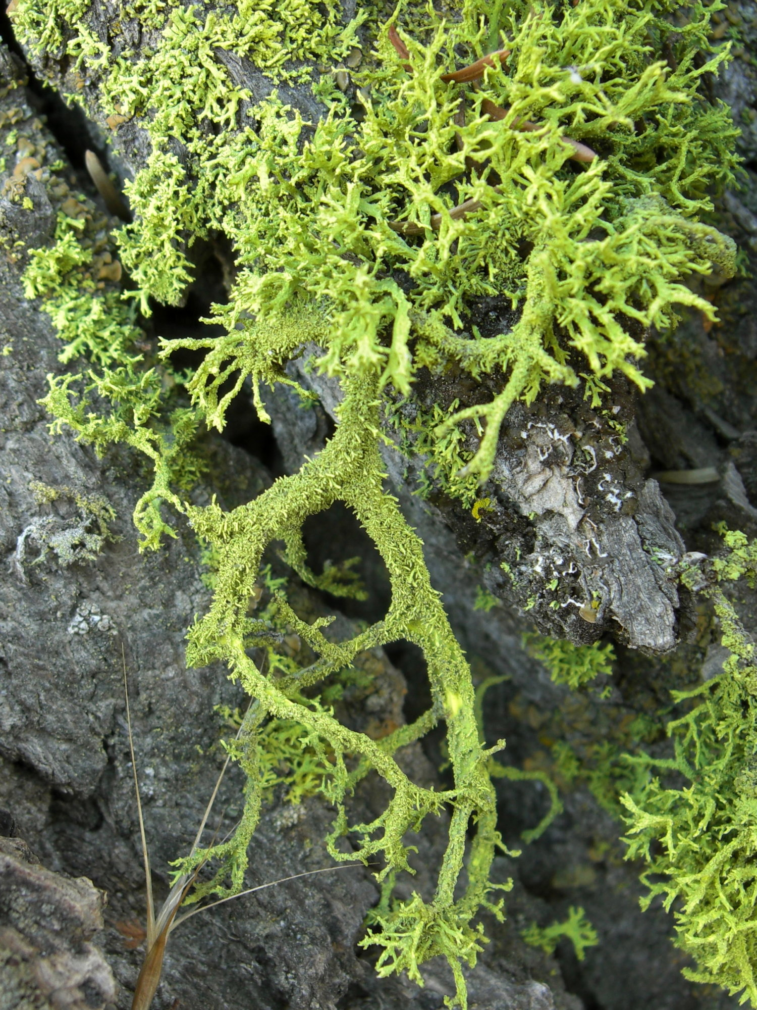 Closeup of Letharia vulpina (L.) Hue thalli showing dense sorediate isidia. Specimen photographed in Mt. Gleason, San Gabriel Mountains, Los Angeles Co., California, USA